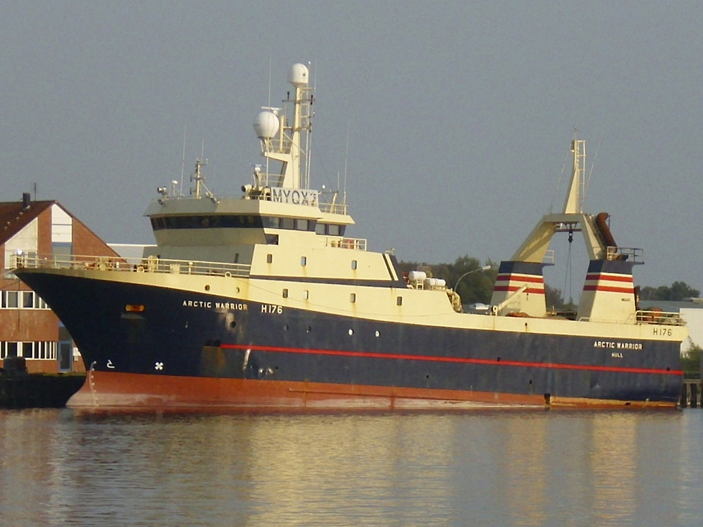 The trawler Arctic Warrior in Bremerhaven, Germany